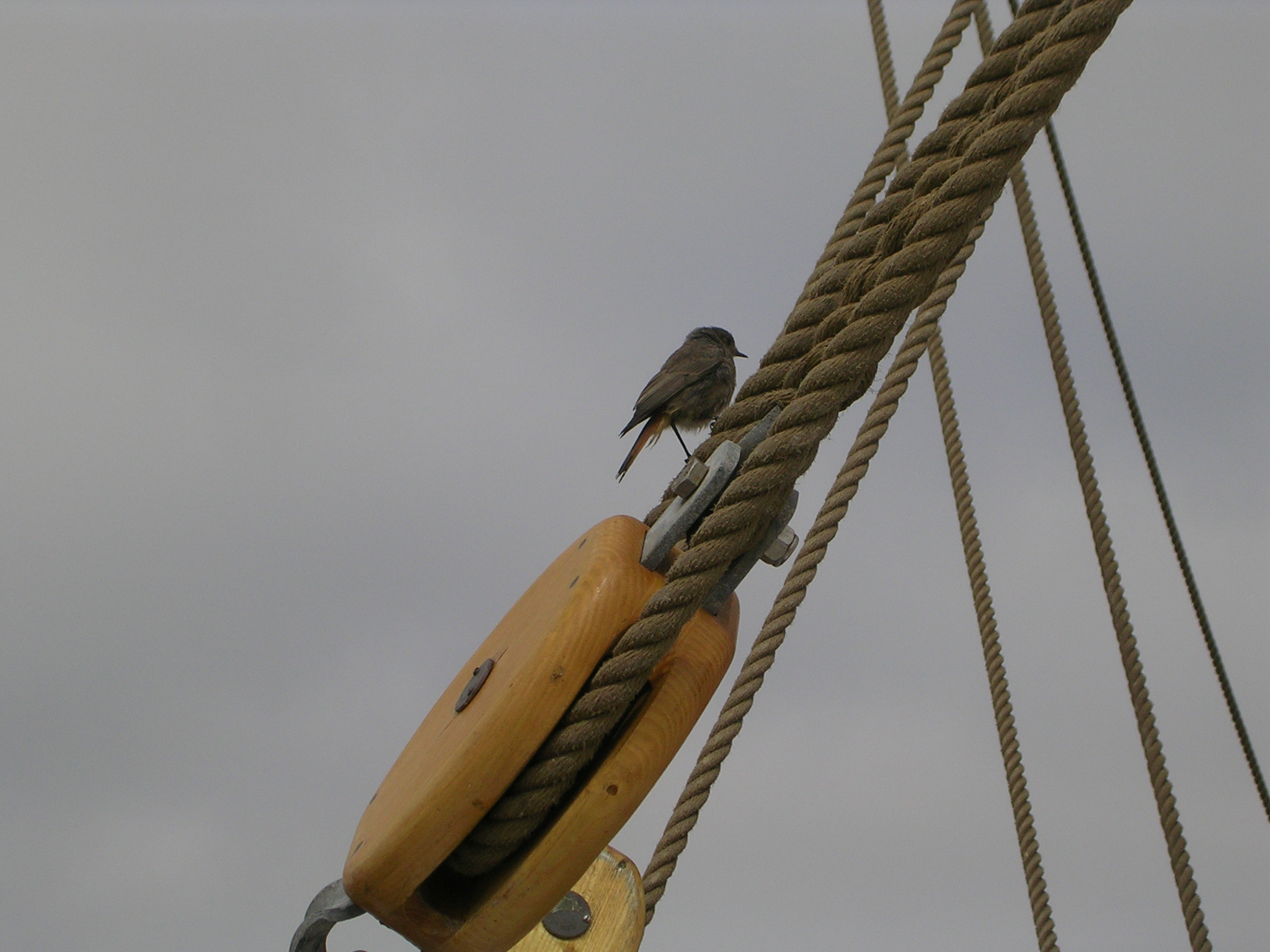 A small bird perches on the port spanker-sheet block on the Prince William, indicating that the ship is nearing the end of her voyage across the North Sea to Norway in the 2005 Tall Ships' Races. Photo by Pete Verdon